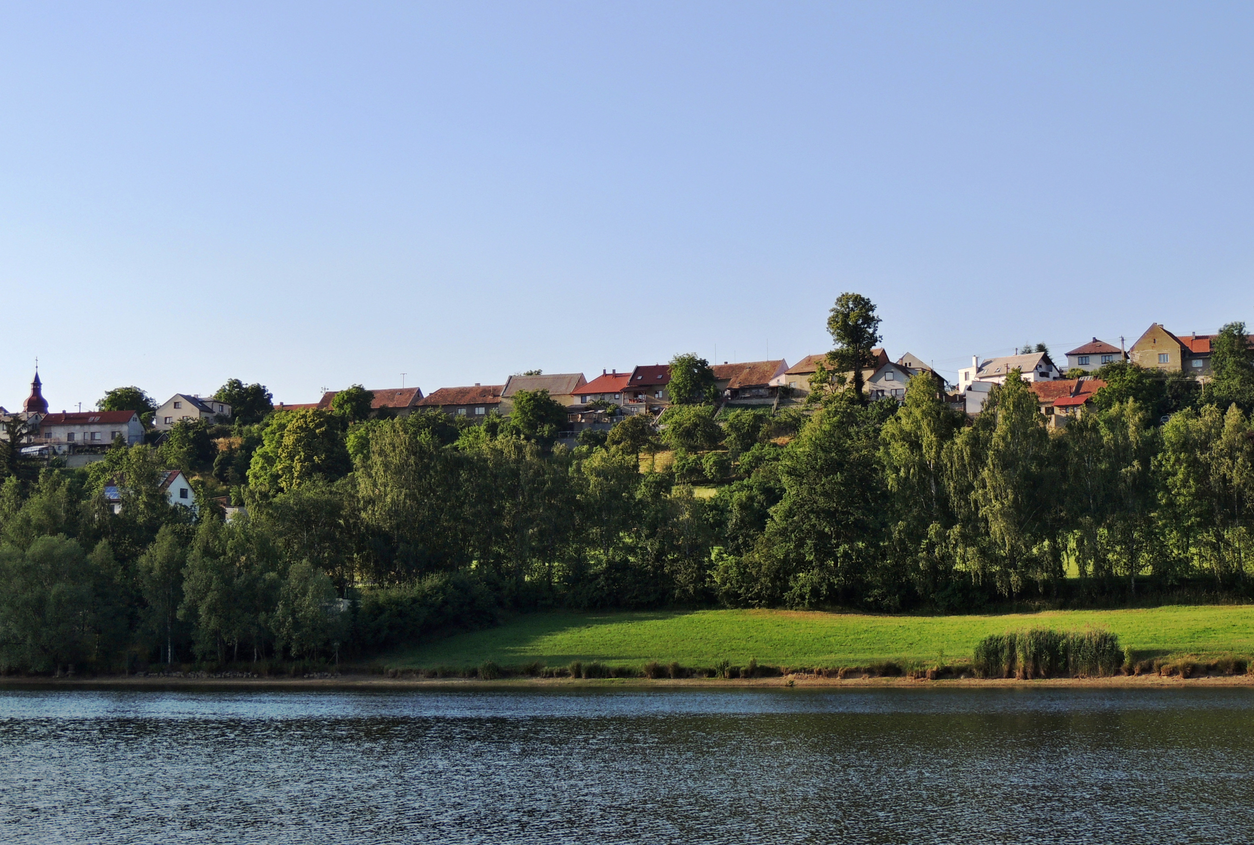 On the a hillside above the pond is located village „Štěpánov" (part of the municipality Skuteč). The hillside is part of geomorphological district „Štěpánovská stupňovina".